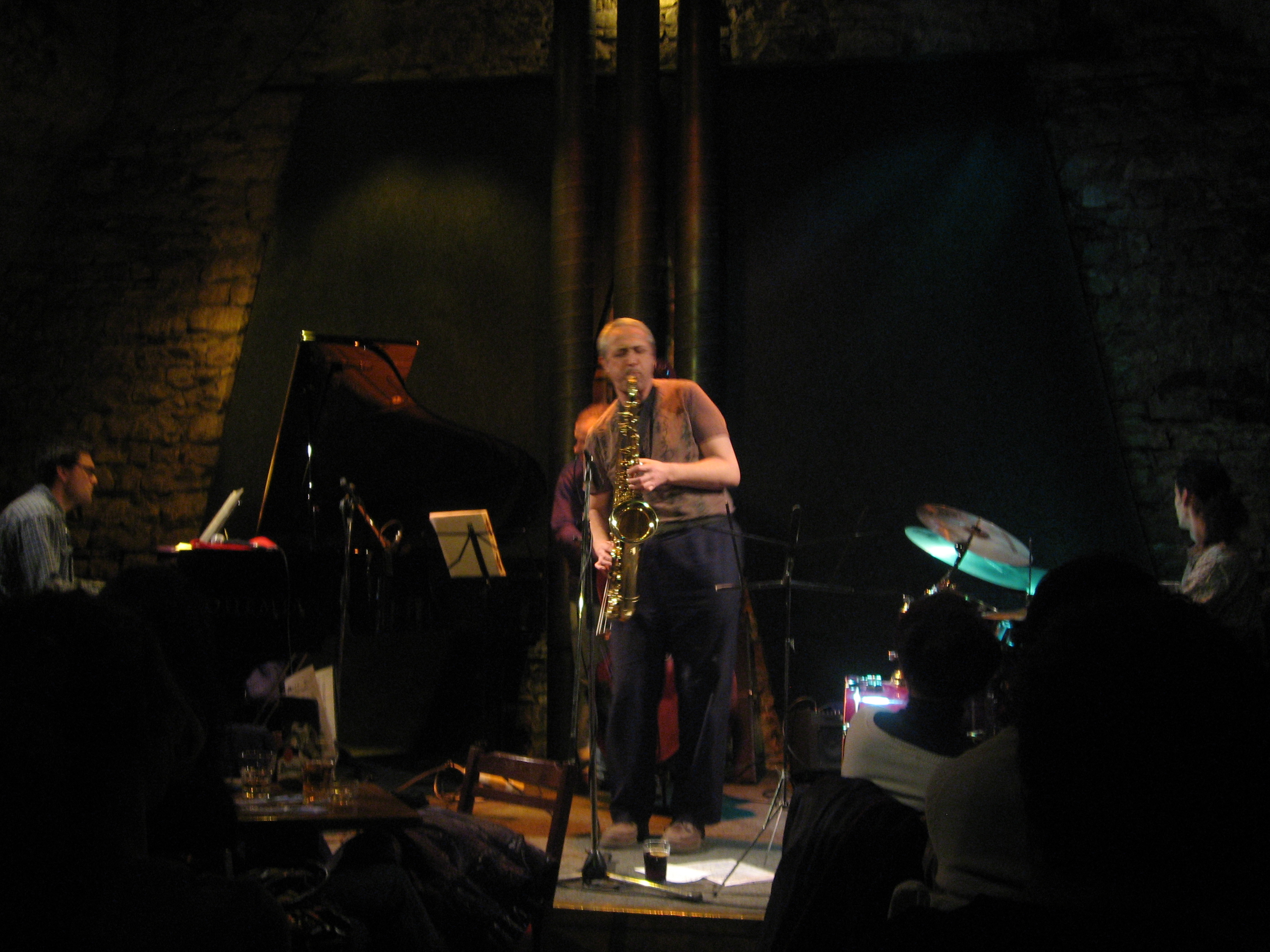 A local jazz group playing at the AghaRTA Jazz Centrum in Prague on March 15, 2008